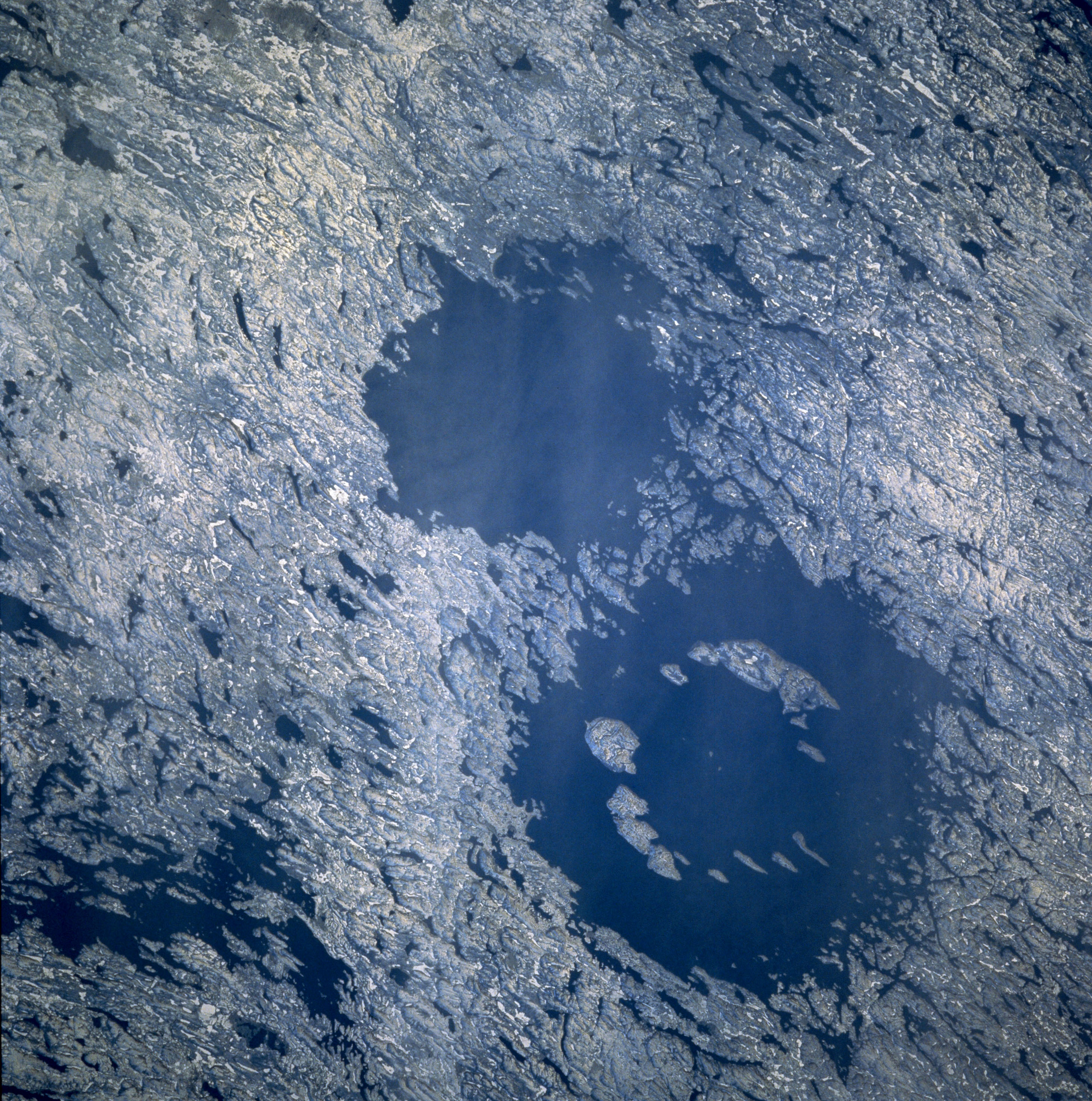 Clearwater Lakes in Quebec,Canada, as seen from the Space Shuttle